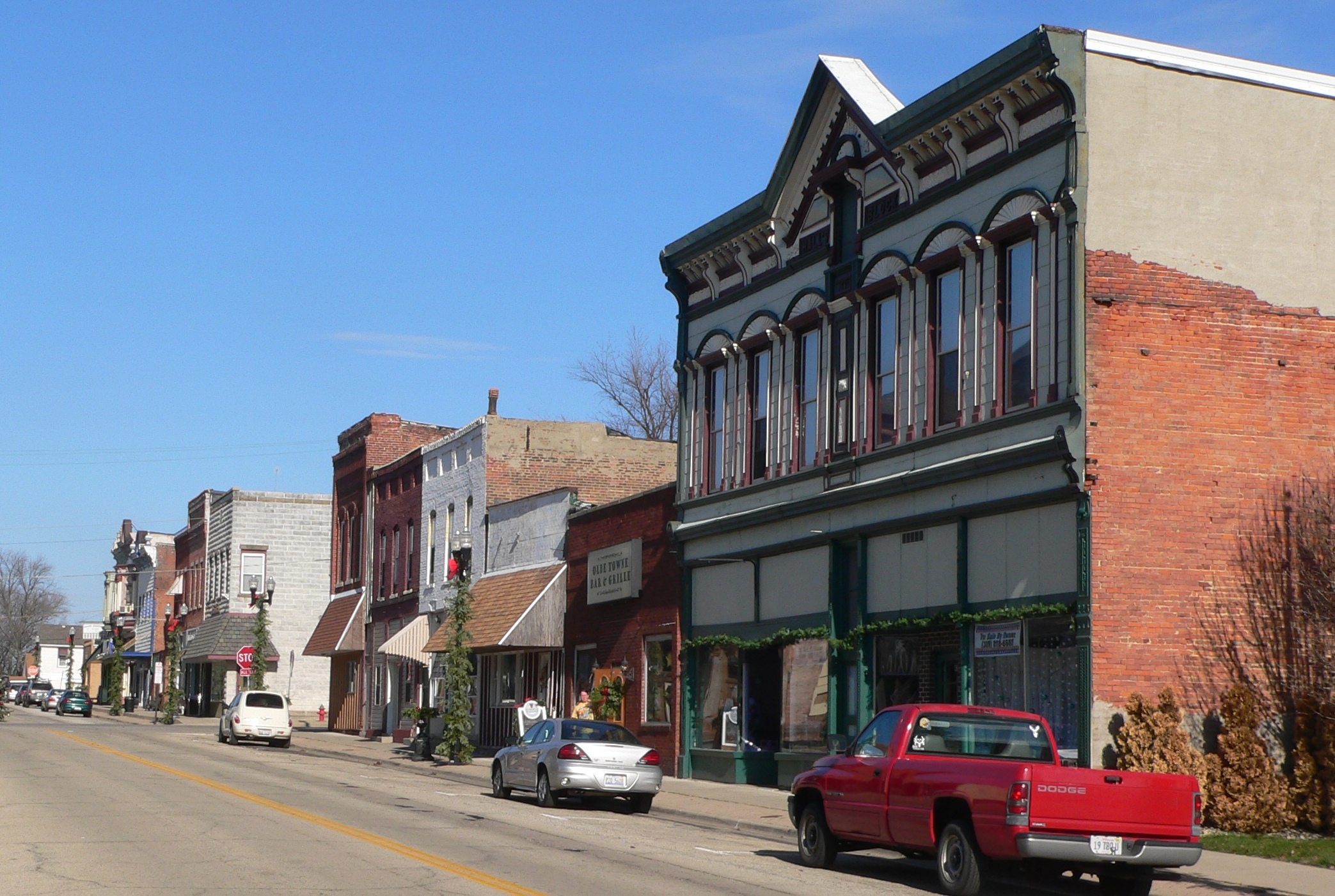 Downtown Delavan, Illinois: east side of Locust Street, looking northward.